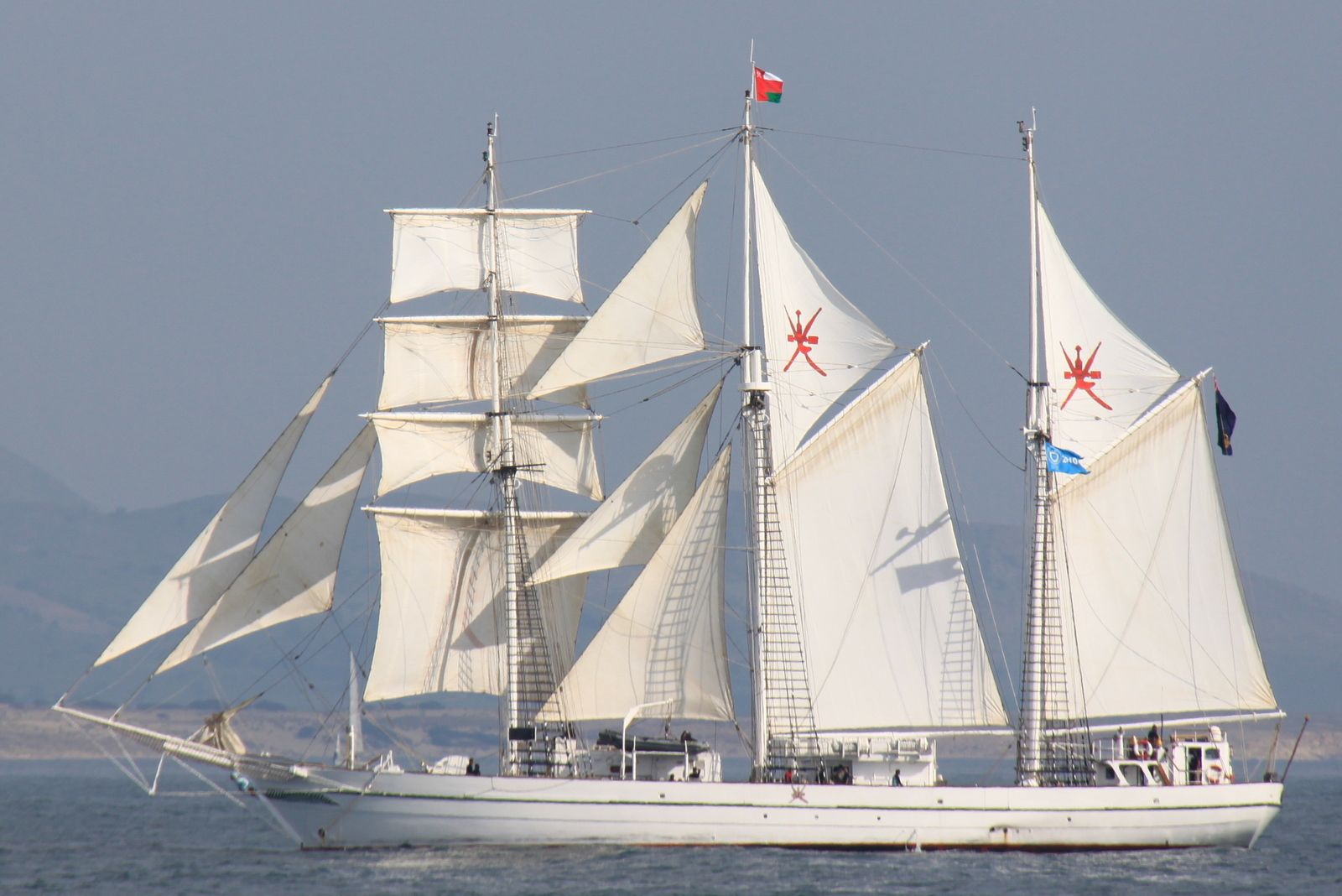 The RNOV Shabab Oman under full sails participating in the STI Historical Seas festival 2010 between Istanbul and Lavrion.